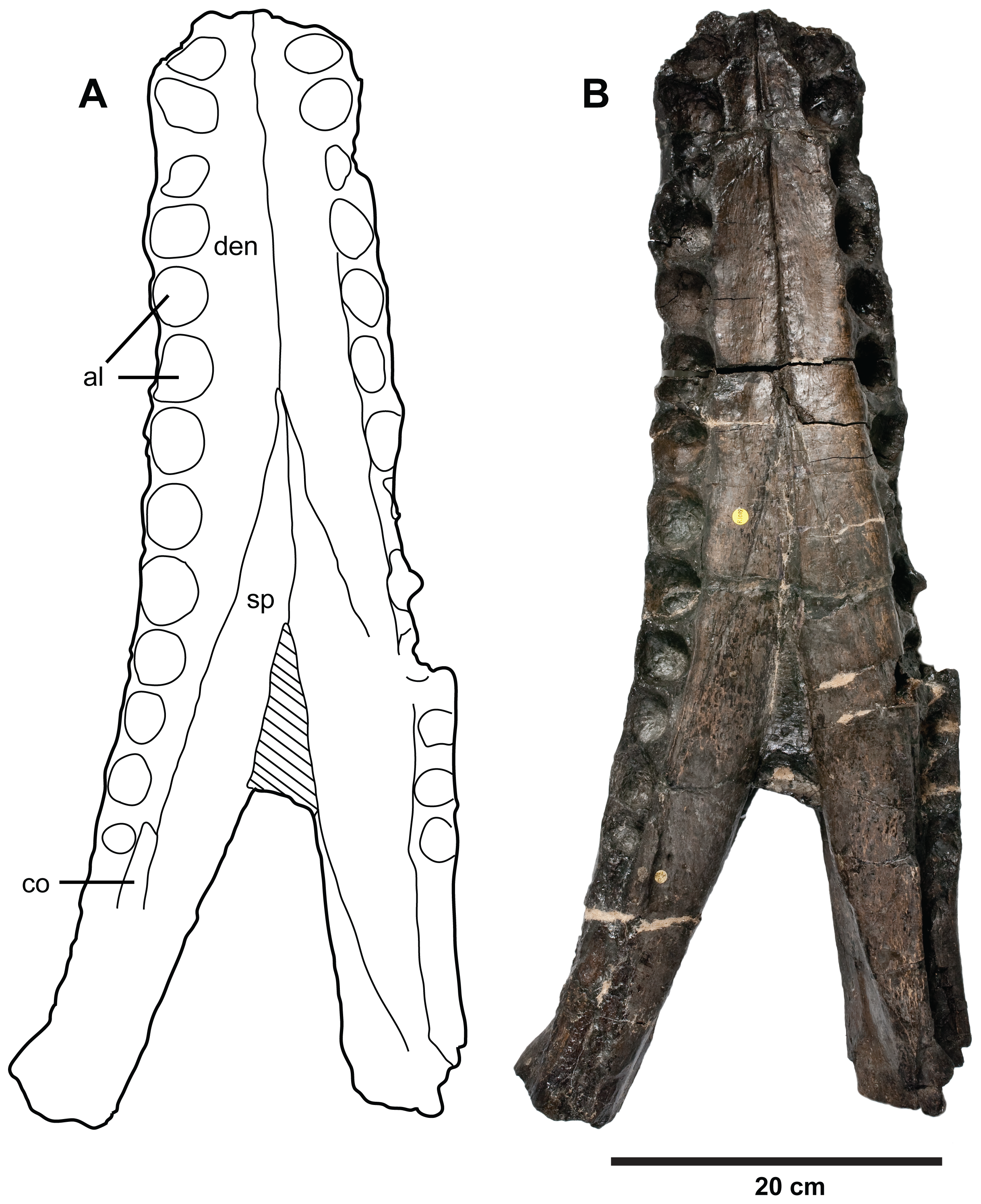 Plesiosuchus manselii, referred specimen NHMUK PV R1089. Mandibular symphysis in dorsal view, (A) line drawing and (B) photograph. Abbreviations: al, alveolus; co, coronoid, den, dentary; sp, splenial.